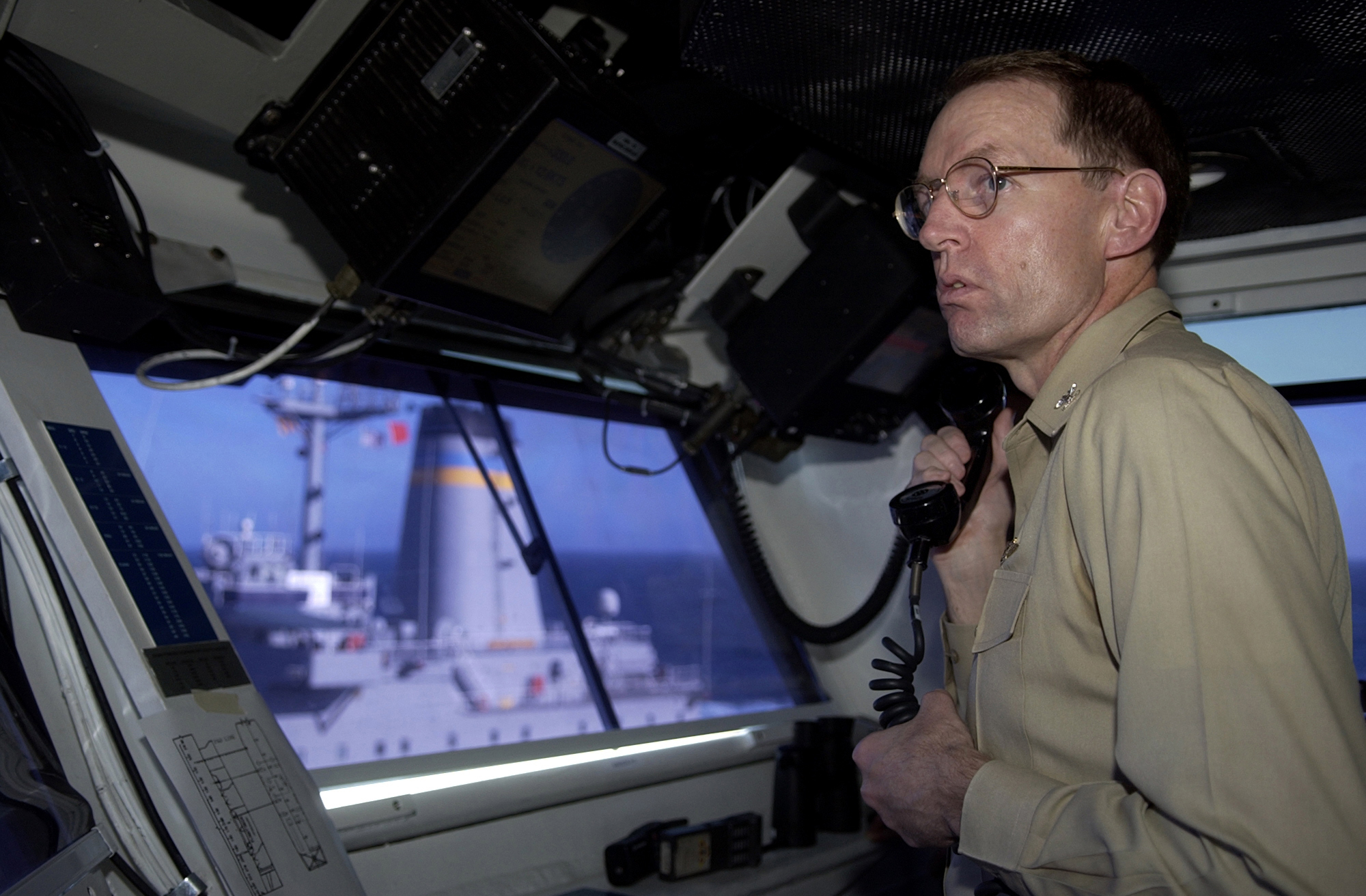 Pacific Ocean (Nov. 4, 2005) – Commanding Officer, USS Ronald Reagan (CVN 76), Capt. James Symonds, oversees an underway replenishment on the navigation bridge. Reagan is currently underway in the Pacific Ocean participating in the ship's initial Composite Unit Training Exercise (COMPTUEX). U.S. Navy photo by Photographer's Mate Airman Kathleen Gorby (RELEASED)